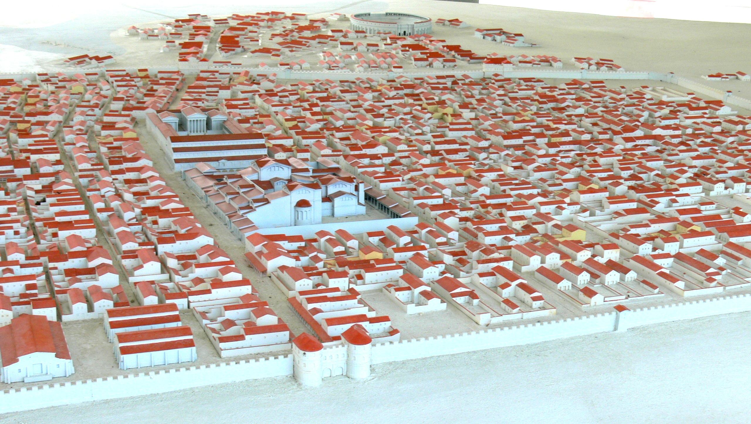 Petronell ( Lower Austria ).Open air museum: Model of Carnuntum ( 210 AD ) - Civil city.